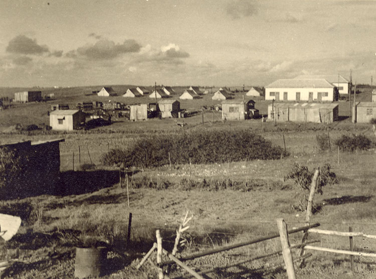 Moshav Bnei Dror, Settlements in Israel